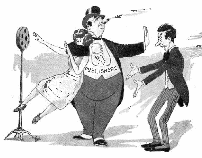 Editorial cartoon in 1925 radio magazine about the issue of the rights to on-air performances. When radio broacasting first began in 1920, live or recorded music was performed on air without regard to its copyright status. As broadcasting became a big business, the sheet music publishers (center), who owned the rights to most music, began suing stations for copyright infringement, keeping many popular tunes of the Jazz Age from being performed on the air. Listeners were understandably incensed. The cartoon shows a rich publisher (center) barring access by two performers to the radio station microphone (left). After court decisions settled that a radio performance came under the copyright of the original work, royalty payments by the radio networks were worked out.